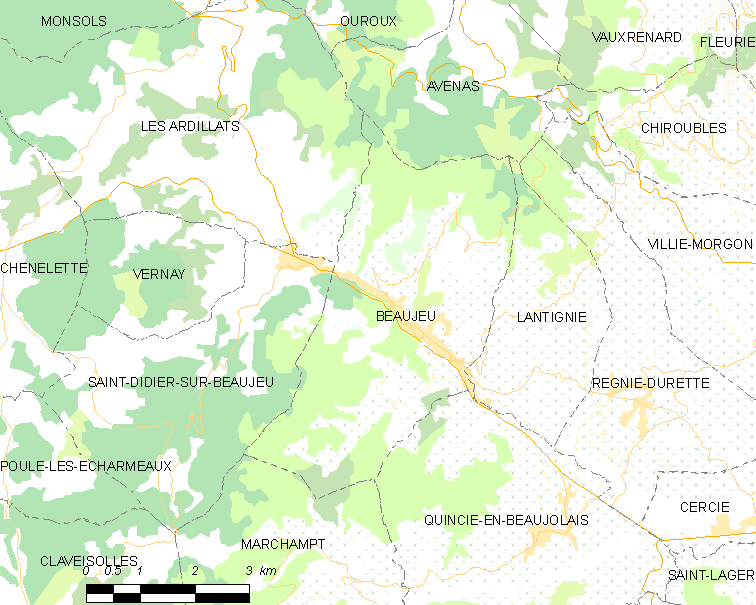 Map of French municipality